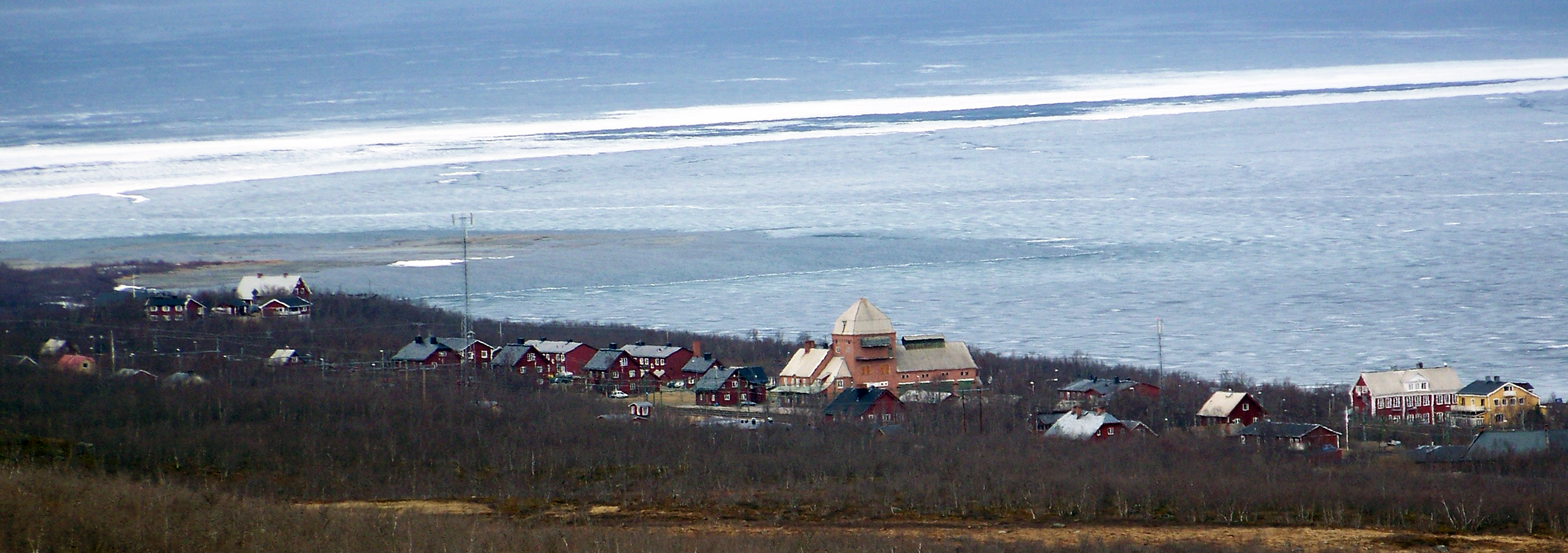 Absiko, a view from south-ost, Paddus trail